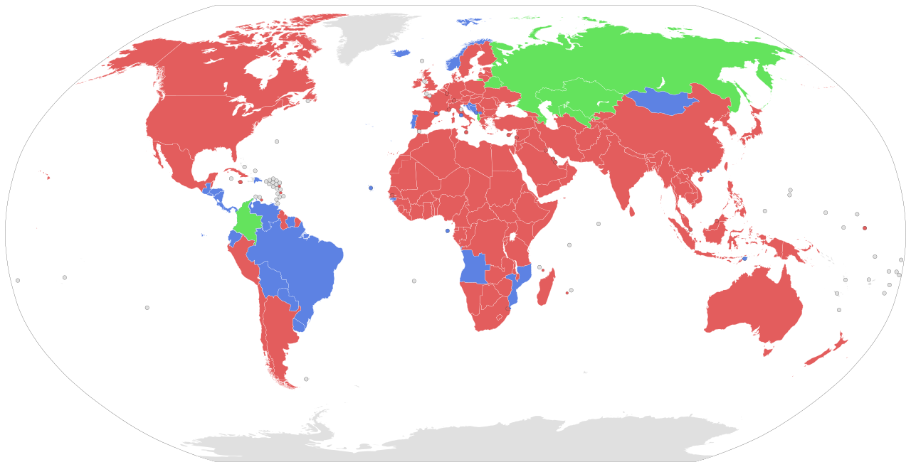 Life imprisonment laws. RED Life imprisonment sentence is used GREEN Life imprisonment sentence is used only under certain restrictions BLUE Life imprisonment laws have been abolished or there were never been such laws GRAY Life imprisonment status unknown, presumed legal